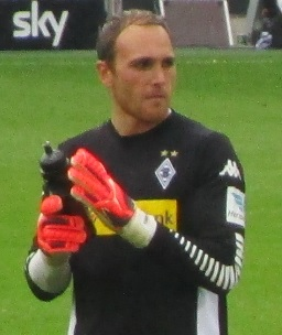 Tobias Sippel